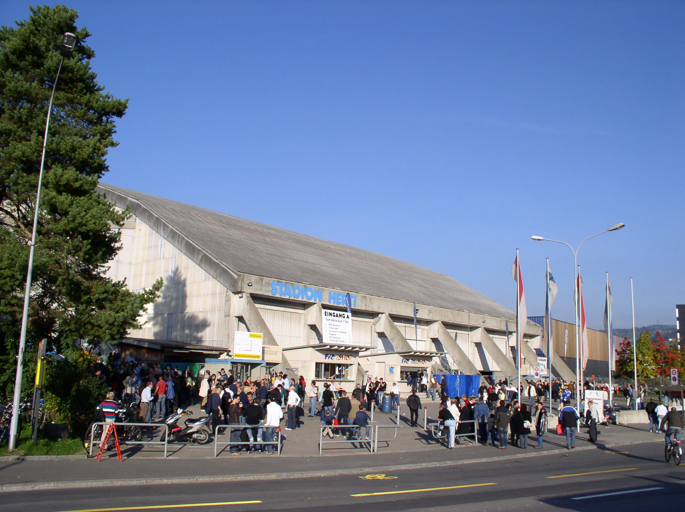 Description: Stadion Herti in Zug vor dem Spiel EV Zug – HC Ambri-Piotta Source: photo taken by me, October 2005 Photographer: Baikonur